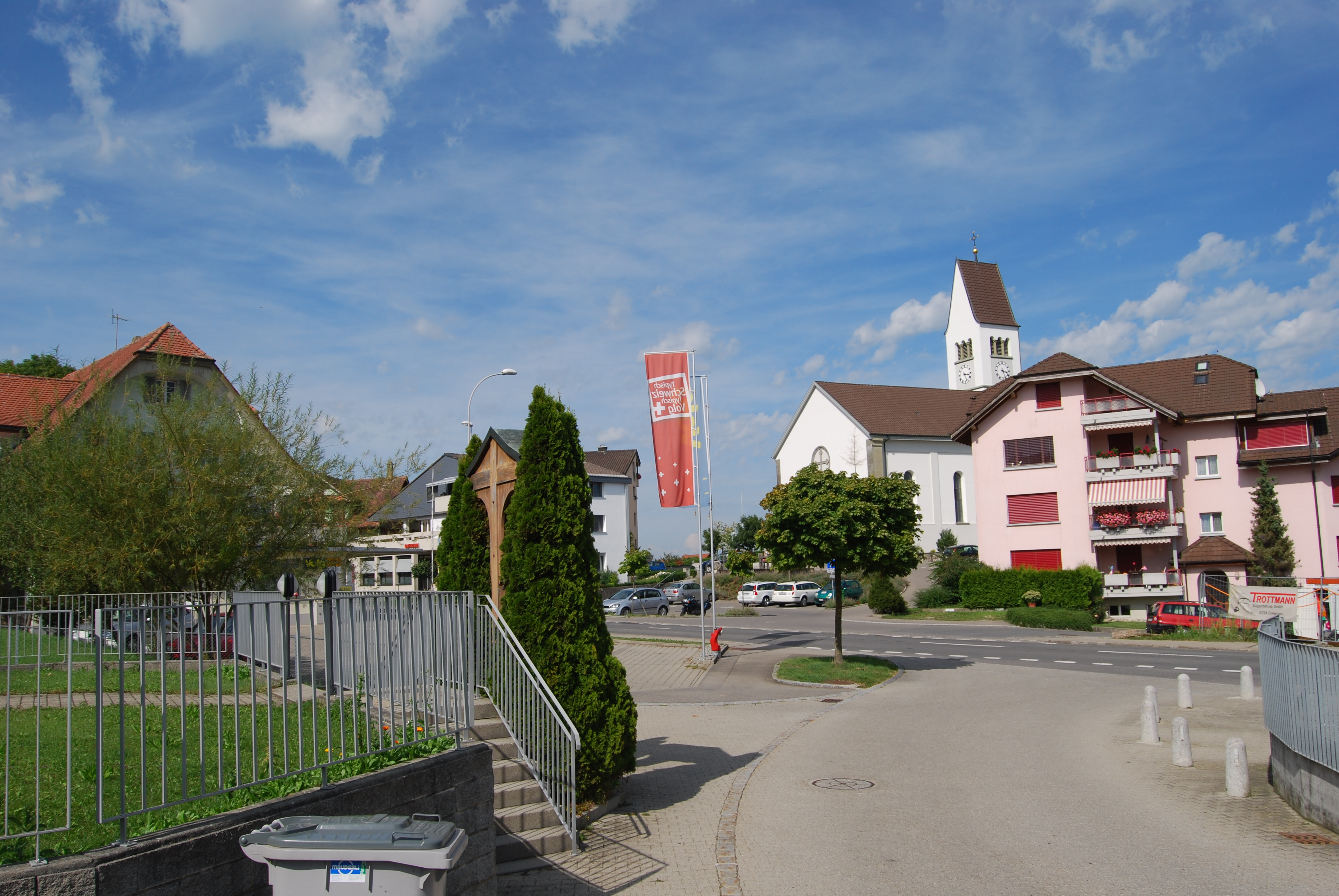 Church of Römerswil, canton of Lucerne, Switzerland